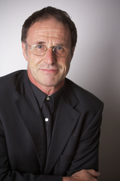 Picture of Friedrich Stadler.